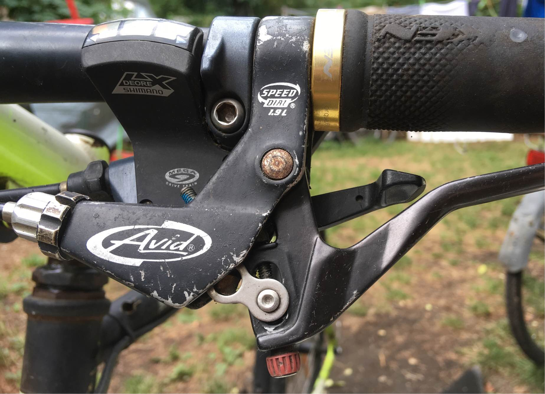 This bicycle brake lever’s mechanical advantage (leverage) can be adjusted. For use with direct-pull cantilevers („V-Brakes“) the attachment point of the cable is moved outward. For use with conventional cantilever brakes ans caliper brakes it is moved inward.